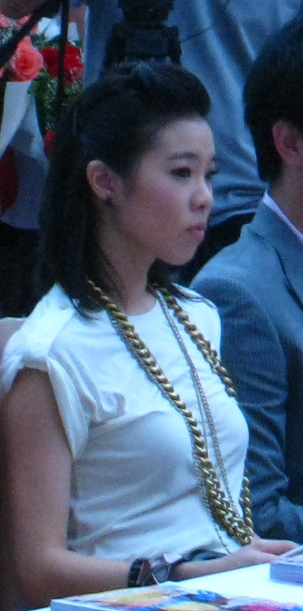 Cris Horwang at 6th anniversary of Seventeen Magazine